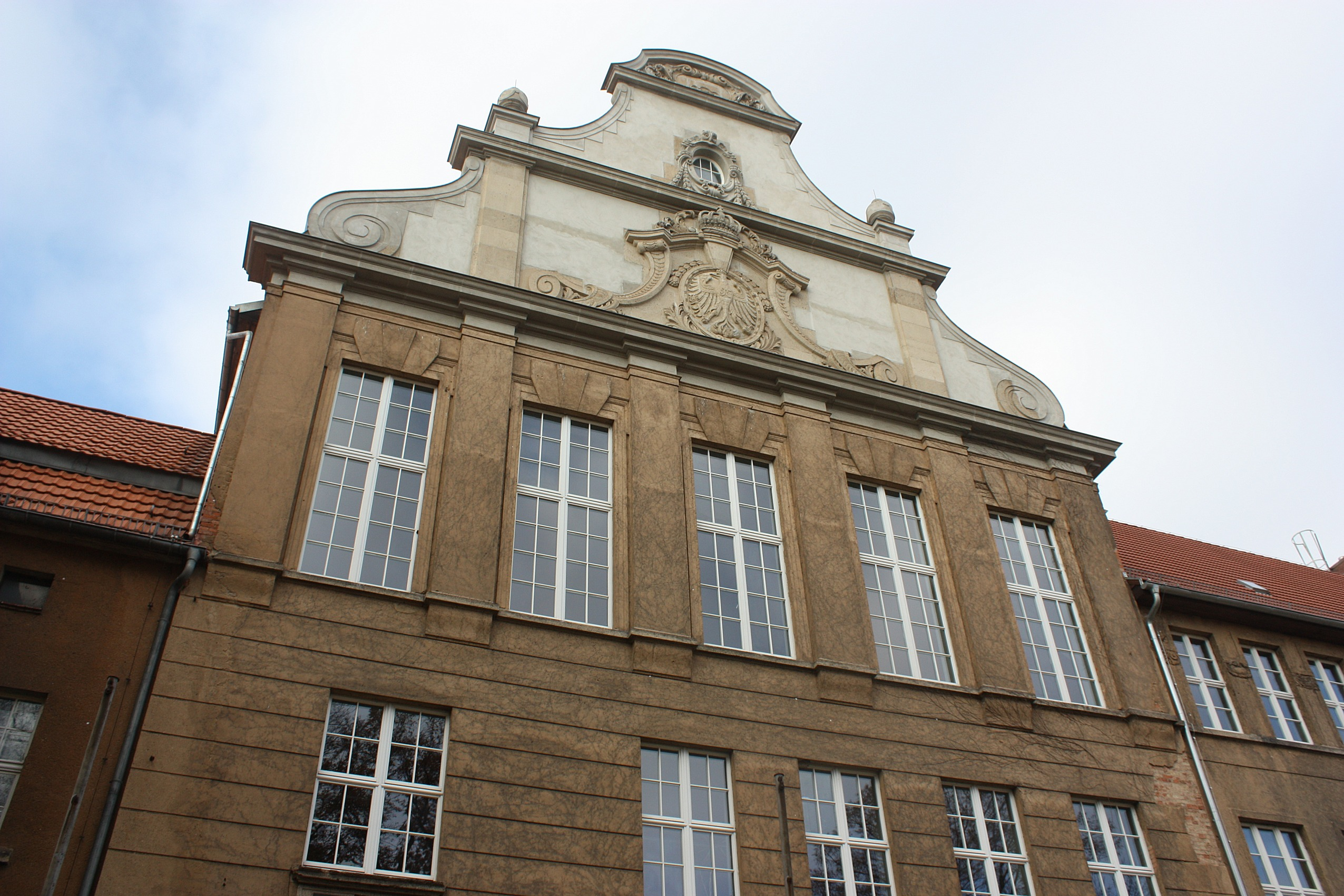 Lutherstadt Eisleben, the gable of the Luther grammar school